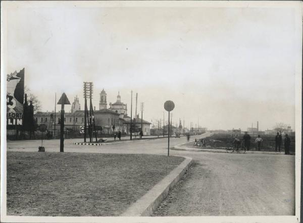 The driveway for Lakes Highway in 1930 crossroads Via Barnaba Oriani and in the back the Certosa of Garegnano. Years 1930